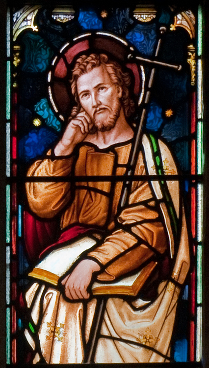 Detail of right part of third stained glass window in the west aisle (left from the nave if coming from the main entrance in the south), depicting Apostle Philip. Augustus Pugin (1812–1852) Alternative names Augustus Welby Northmore Pugin; A. W. N. PuginDescriptionBritish architectDate of birth/death 1 March 1812 14 September 1852 Location of birth/death Bloomsbury RamsgateWork location United Kingdom Authority control : Q313288 VIAF: 17247761 ISNI: 0000 0000 8096 1987 ULAN: 500008414 LCCN: n50027100 NLA: 35435757 WorldCat creator QS:P170,Q313288